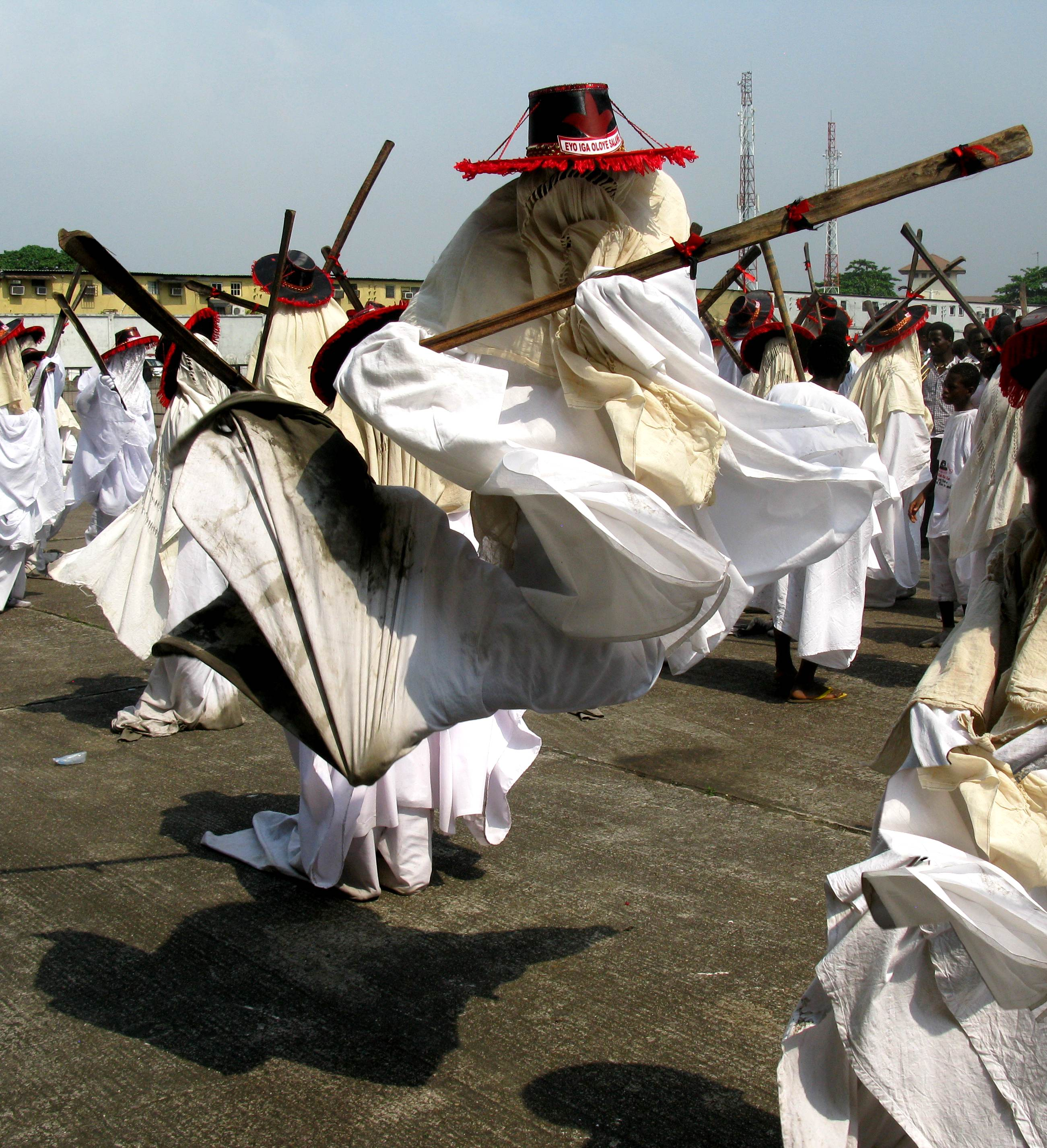 An Eyo Iga Olowe Salaye masquerade jumping. Photographed at Teslim Balogun Stadium in Lagos.